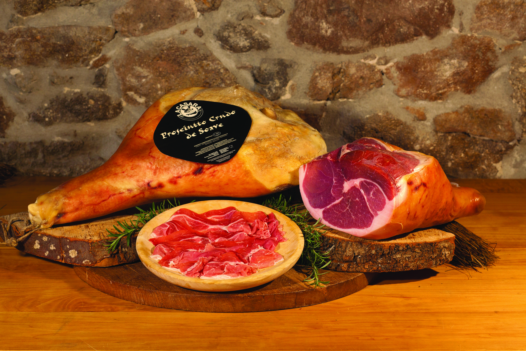 Prosciutto ham in store